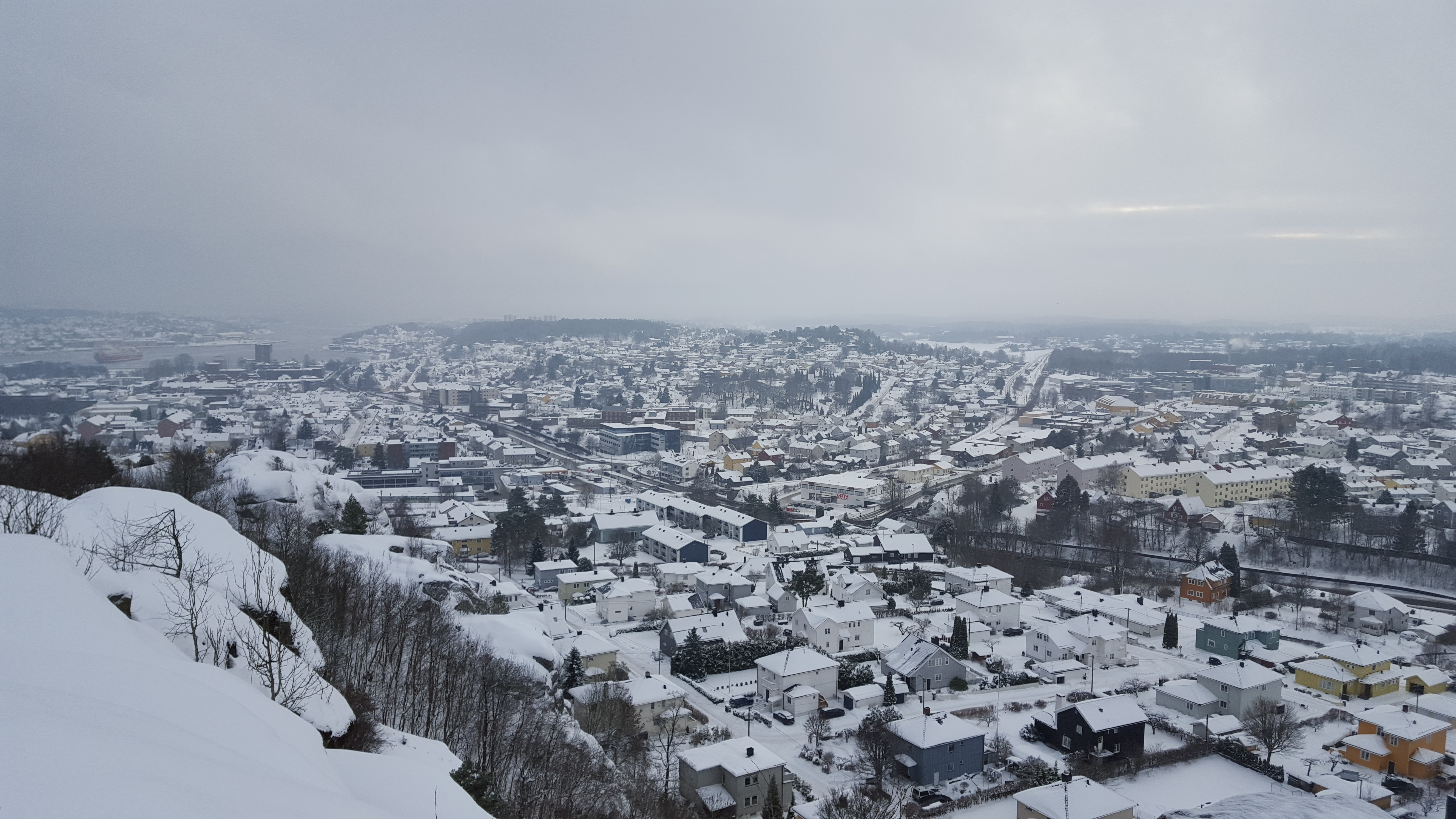 Picture of Sandefjord, Norway.